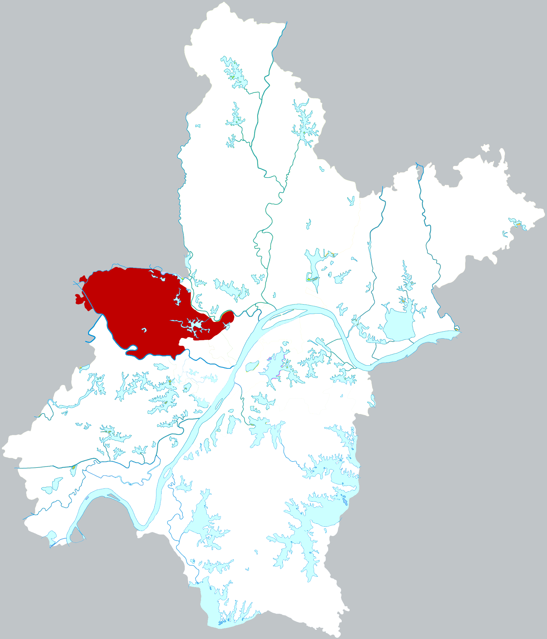 Location of Dongxihu district in Wuhan city, China